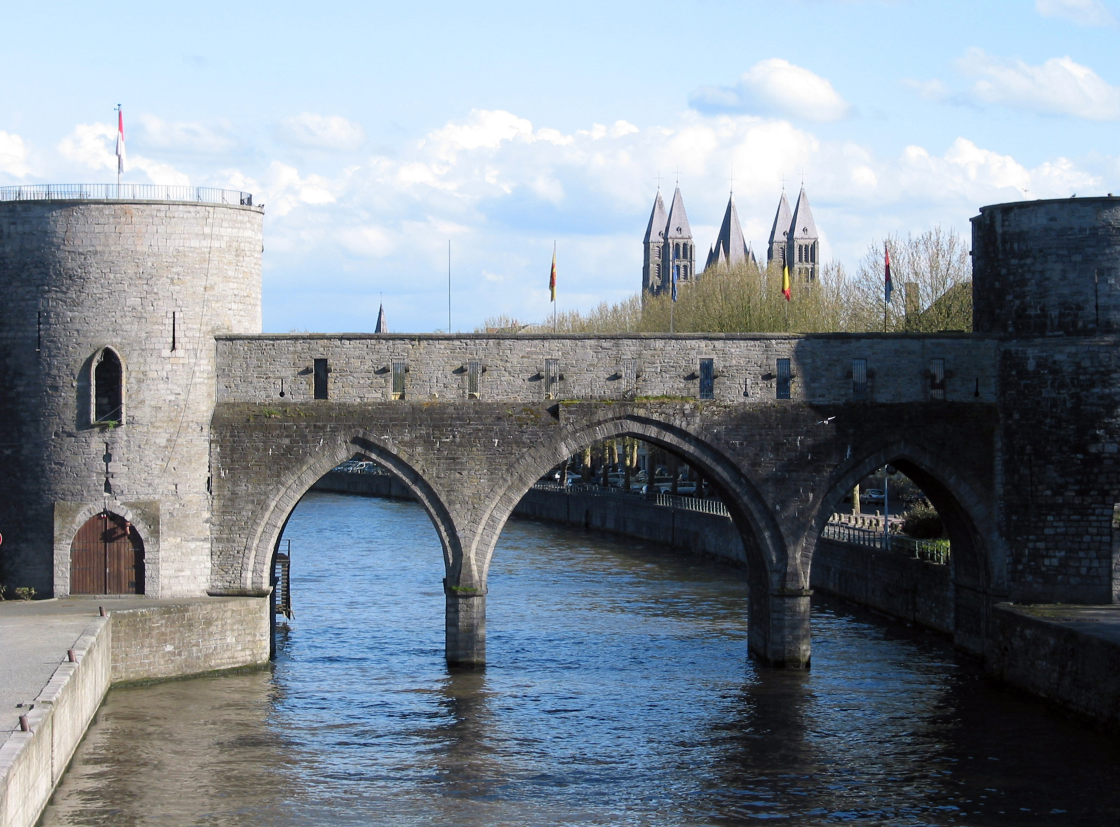 Tournai (Belgium), the "Pont des Trous" (bridge) on the Escaut river with Our Lady's cathedral as aim vision.